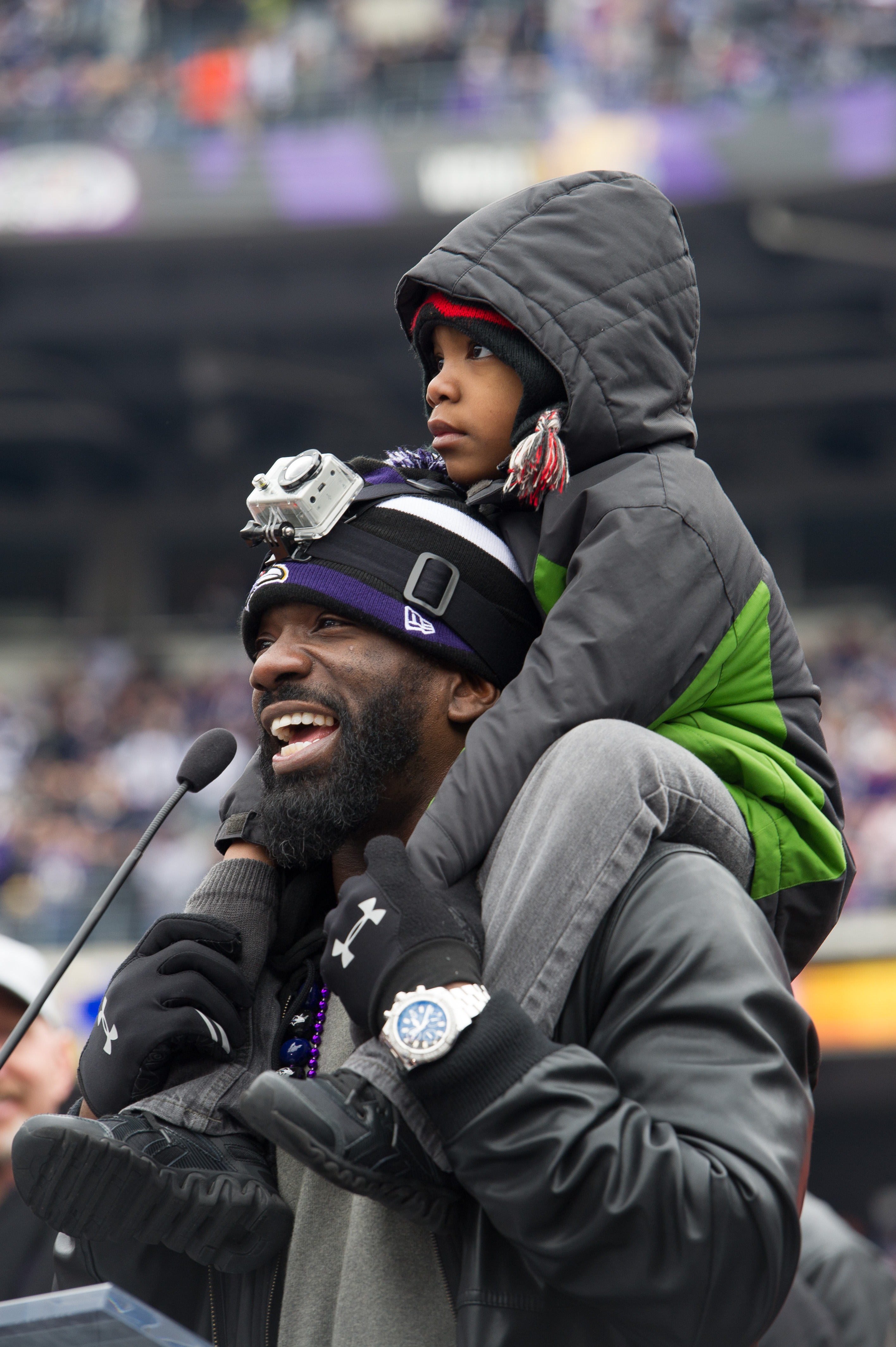 Baltimore Ravens Homecoming Celebration. by Jay Baker at Baltimore, MD.